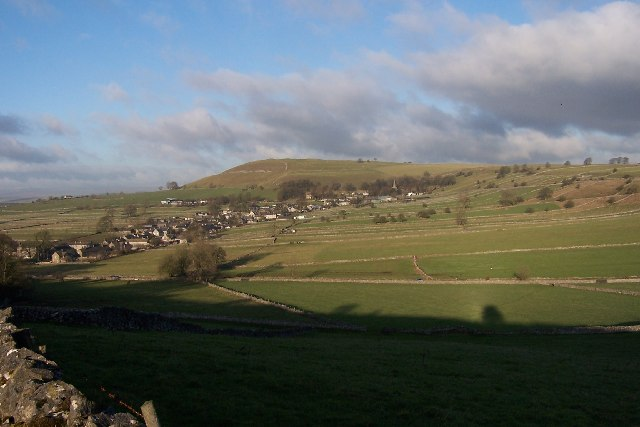 Chelmorton from Pippenwell Lane. Looking north over Chelmorton village toward Calton Hill.